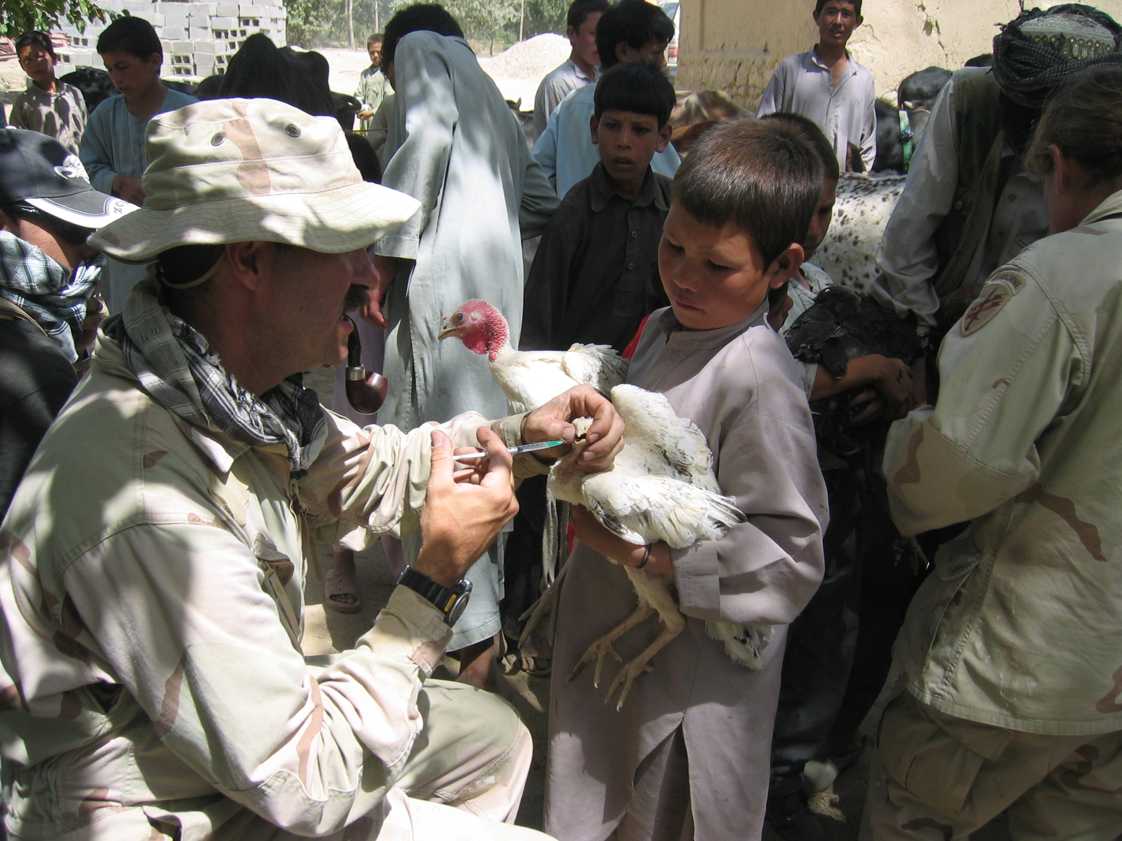 Provincial Reconstruction Team veterinarian vaccinates a chicken. Keywords: Afghanistan Farm Animals Chickens Veterinary Livestock Children Boys.